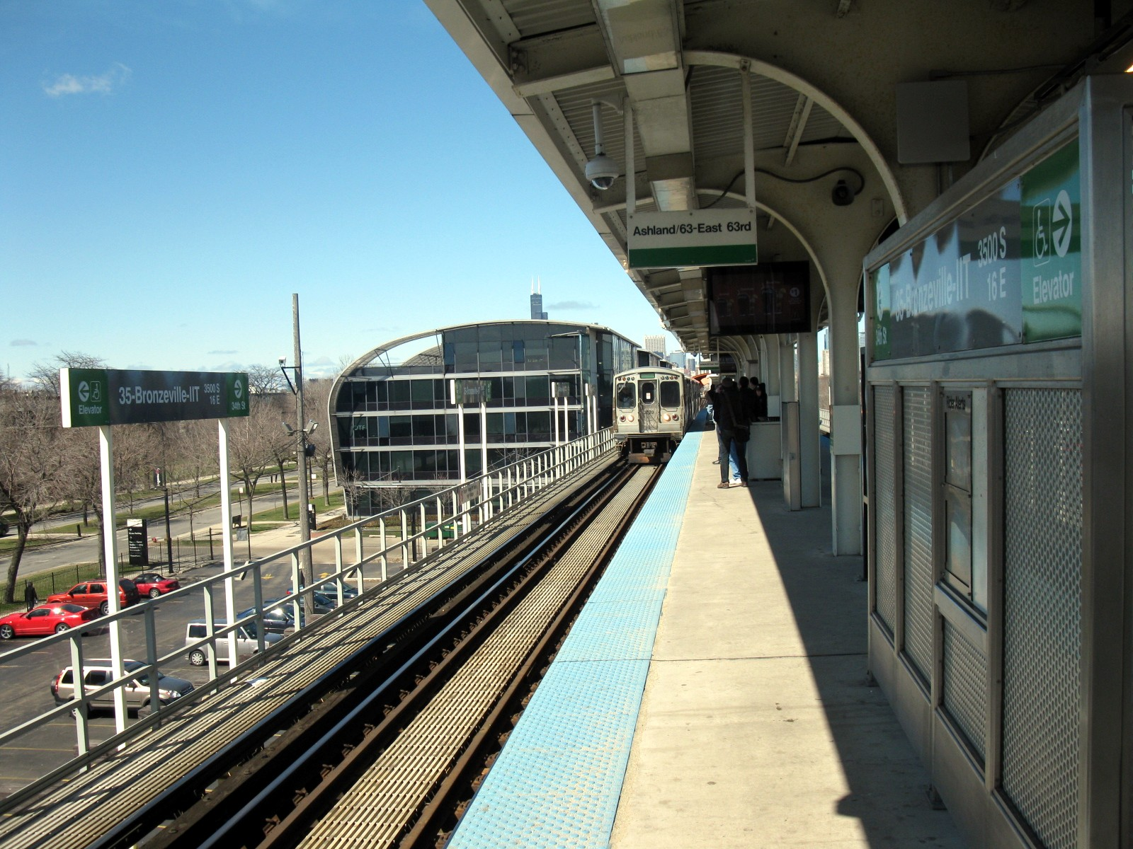 20110327 33 CTA Green Line L @ 35th Bronzeville IIT